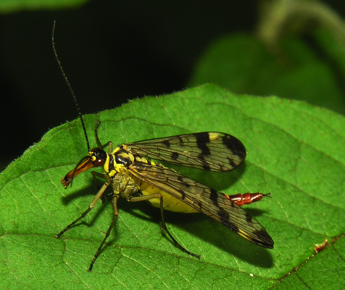 Common Scorpion Fly (Panorpa communis), female specimen